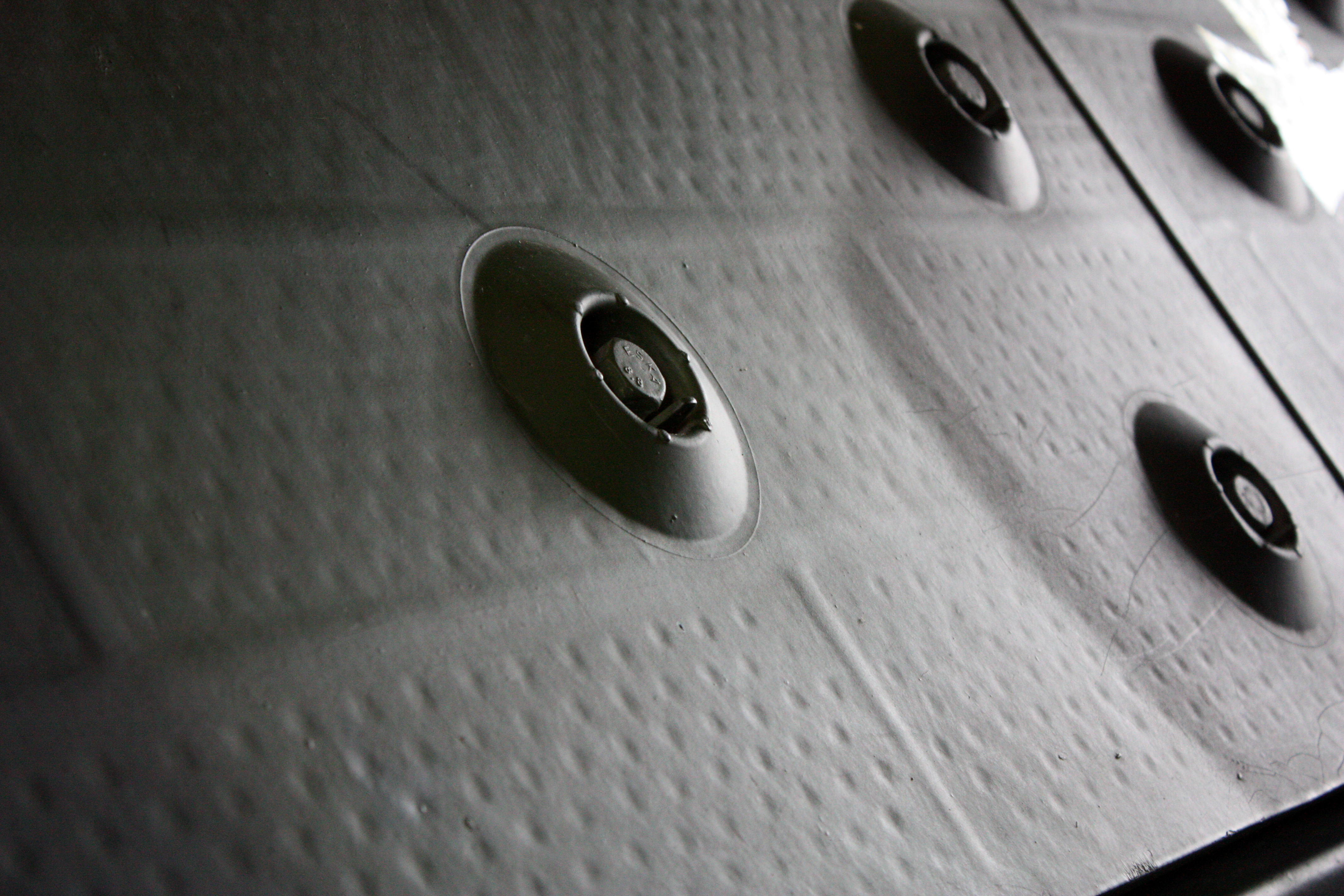 German Tank Museum